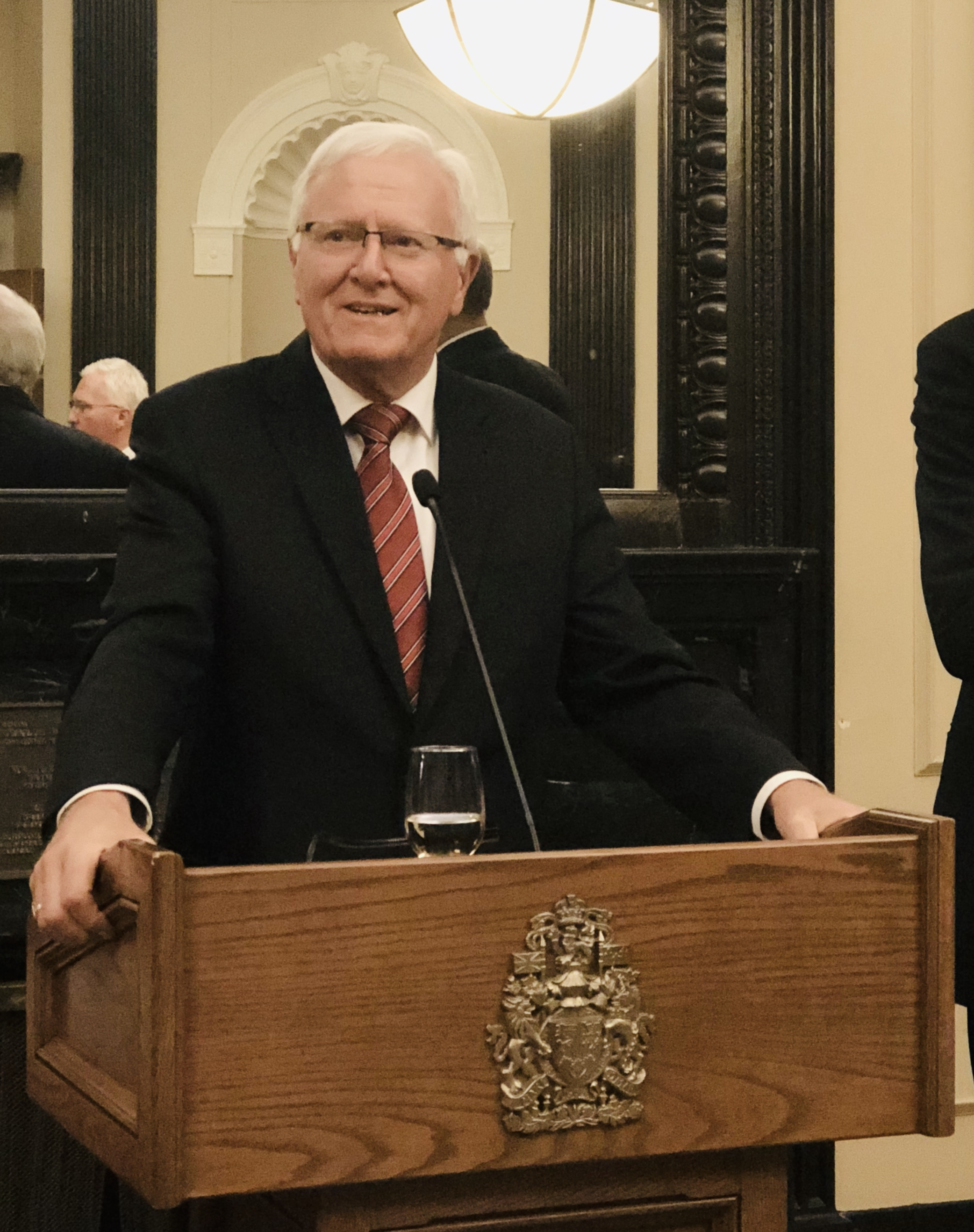 MP Bill Casey (Cumberland-Colchester) delivering remarks at a Parliamentary event in October 2018.